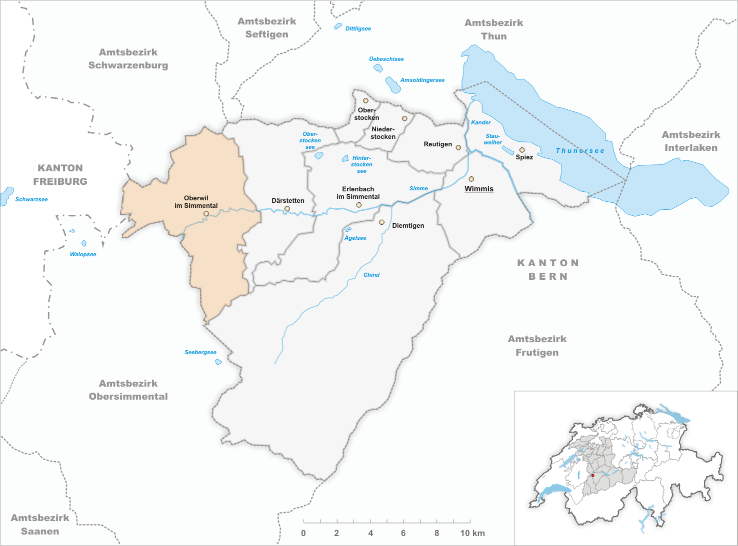 Municipality Oberwil im Simmental